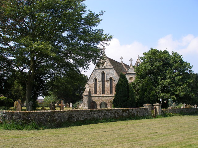 All Saint's Church and churchyard, Stanford